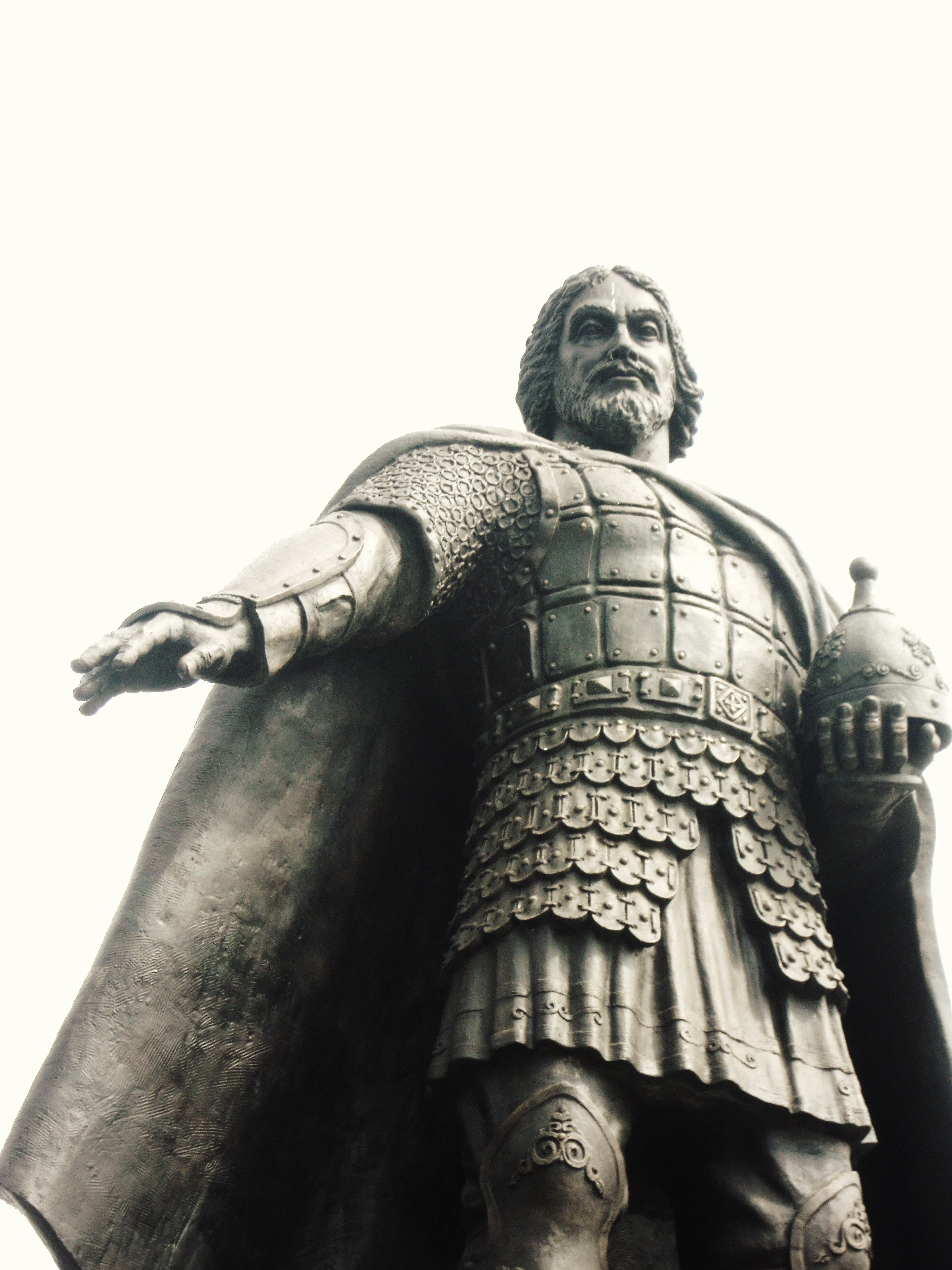 Vladimir Andreyevich the Bold was the most famous prince of Serpukhov